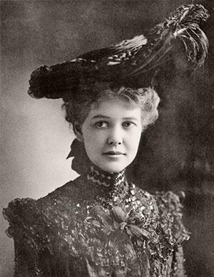 Self image of Beatrice Tonnesen